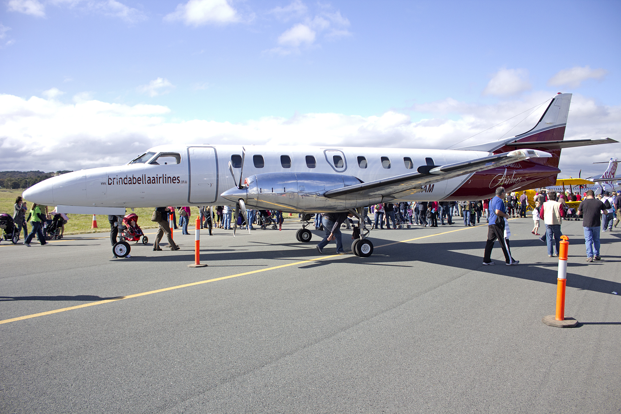 Brindabella Airlines (VH-TAM) Fairchild SA227-AC Metro III at the Canberra International Airport open day.